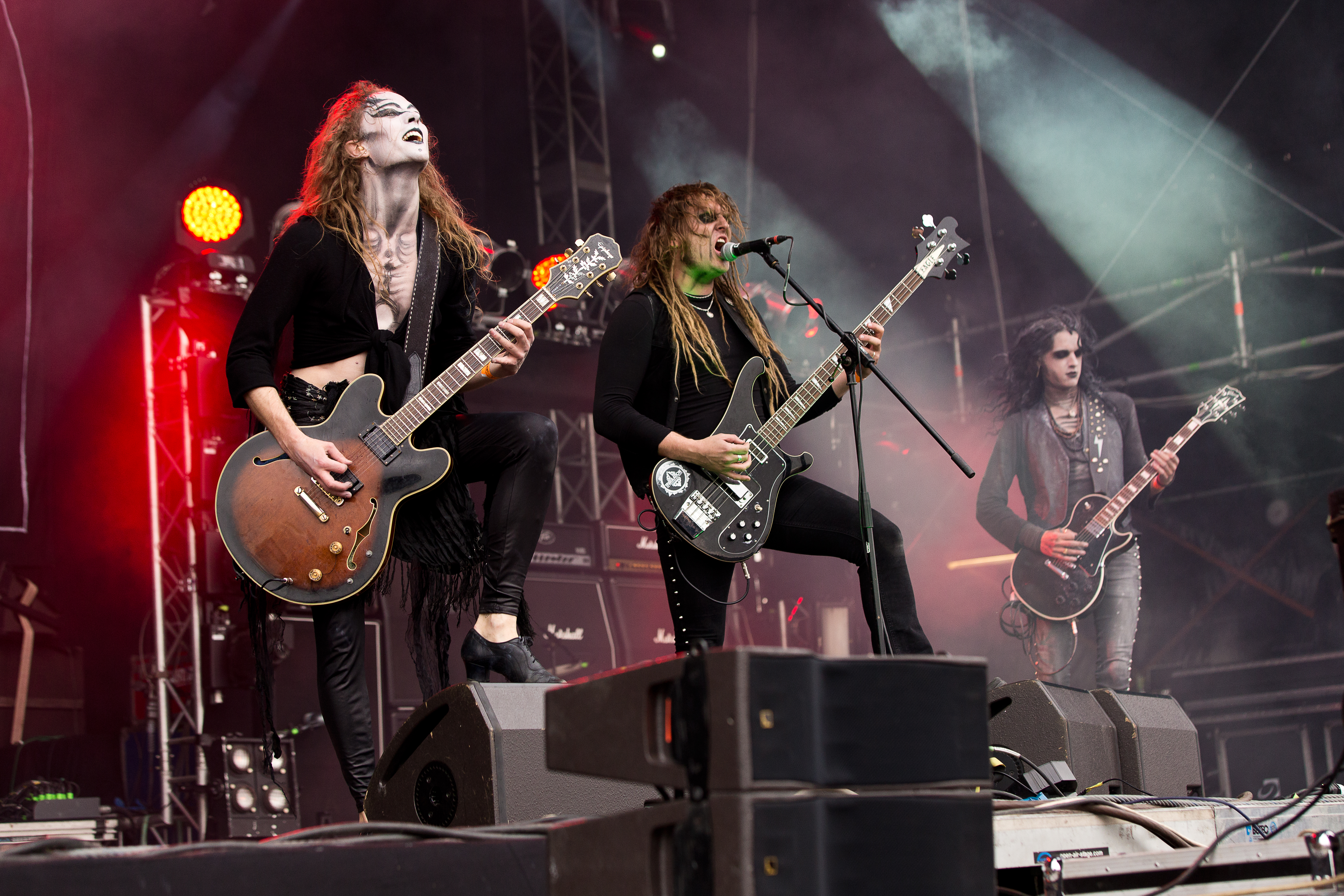 The Swedish death metal band Tribulation at the Party.San Metal Open Air 2016 in Obermehler-Schlotheim/Germany